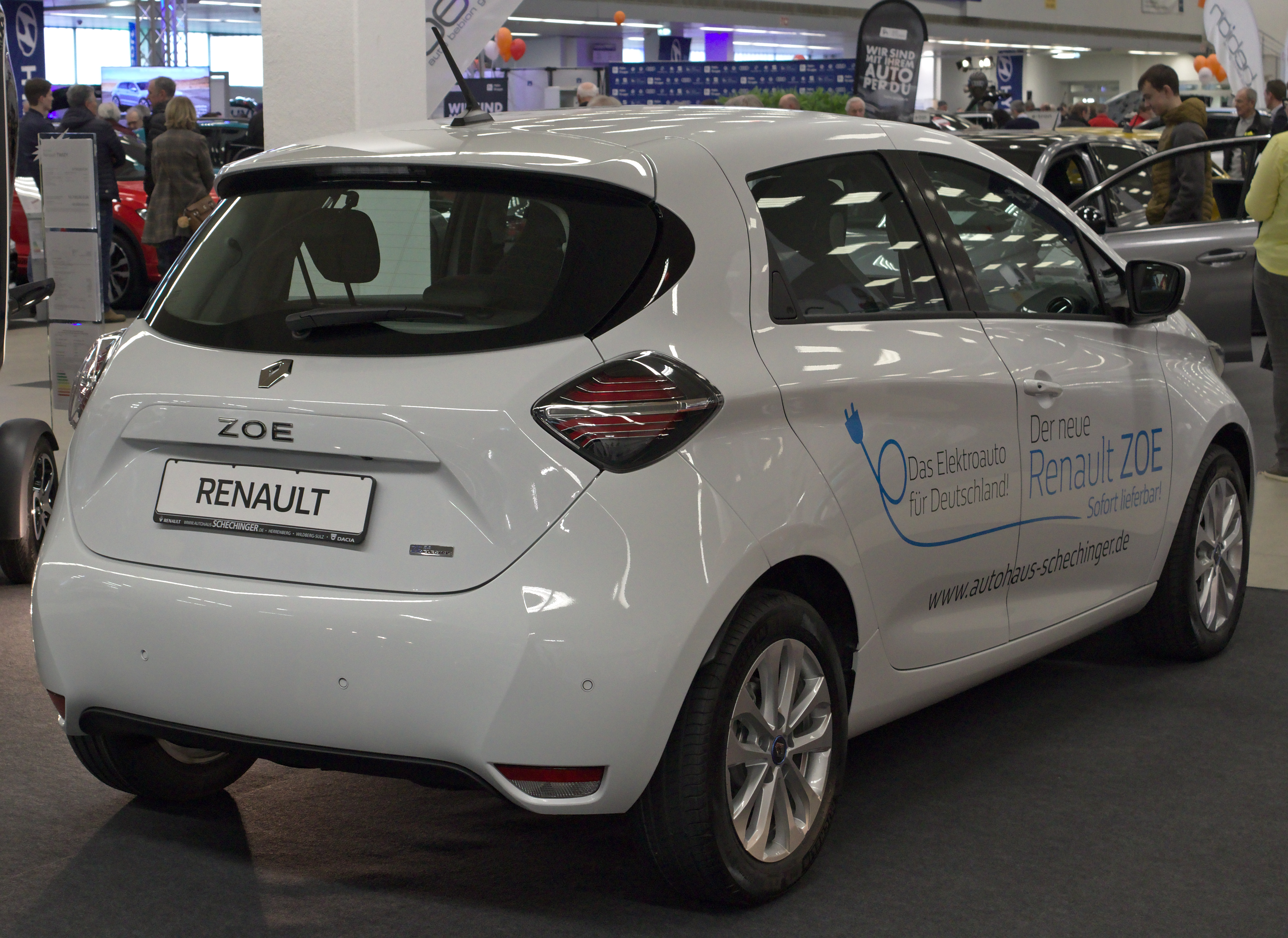 Renault_Zoe_Sindelfingen_2020